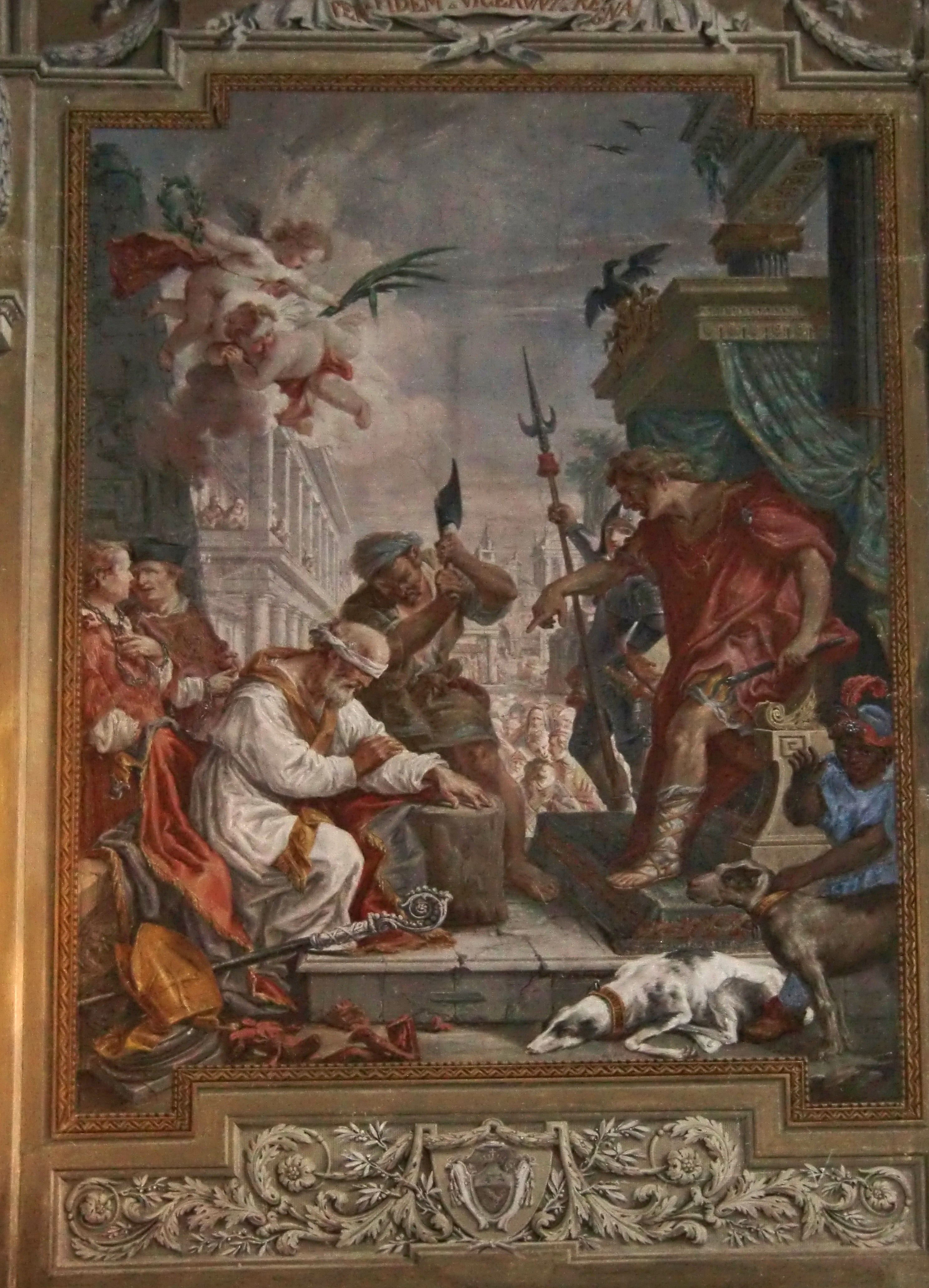 Cogrossi Carlo,The Martyrdom of San Savino, fresco, late eighteenth century, Ivrea, Cathedral